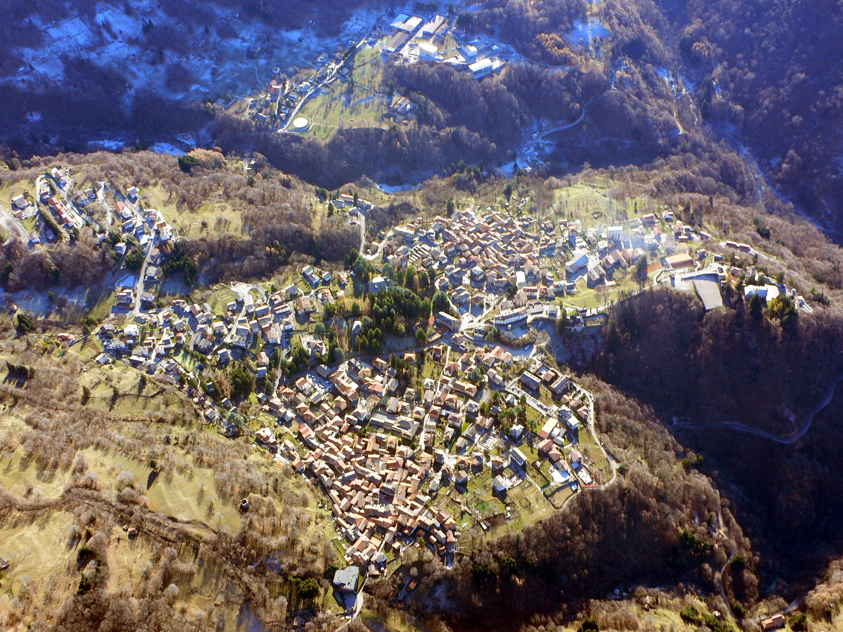 Image of Esino Lario and Grigna. Courtesy Archivio Pietro Pensa, photo by Carlo Maria Pensa.